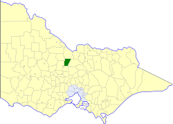 Location of the Shire of Huntly within Victoria.